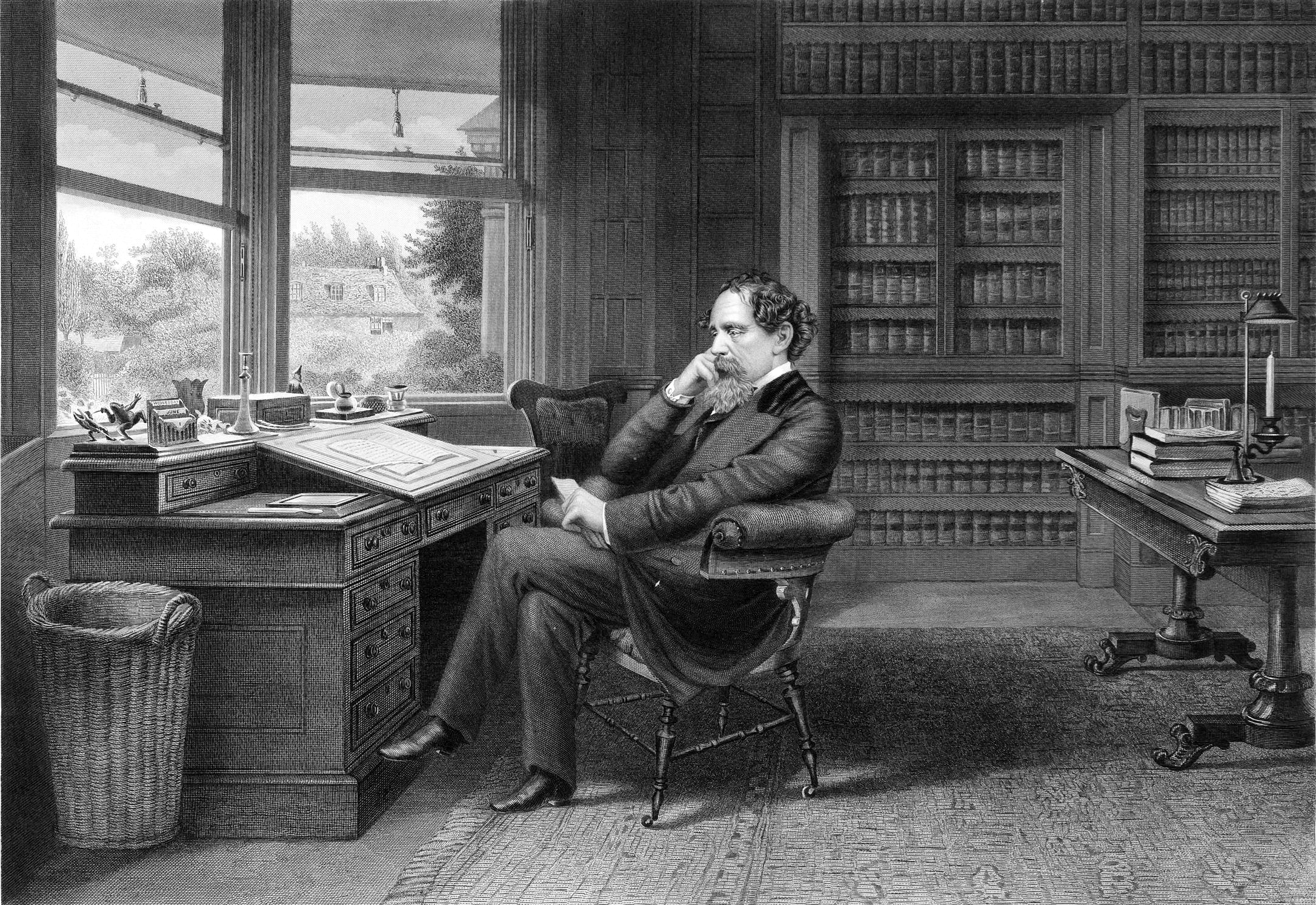 Engraving of Charles Dickens in His Gad's Hill Study